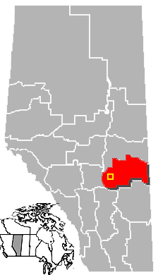 Location of Stettler, Census Division No. 7, Albera